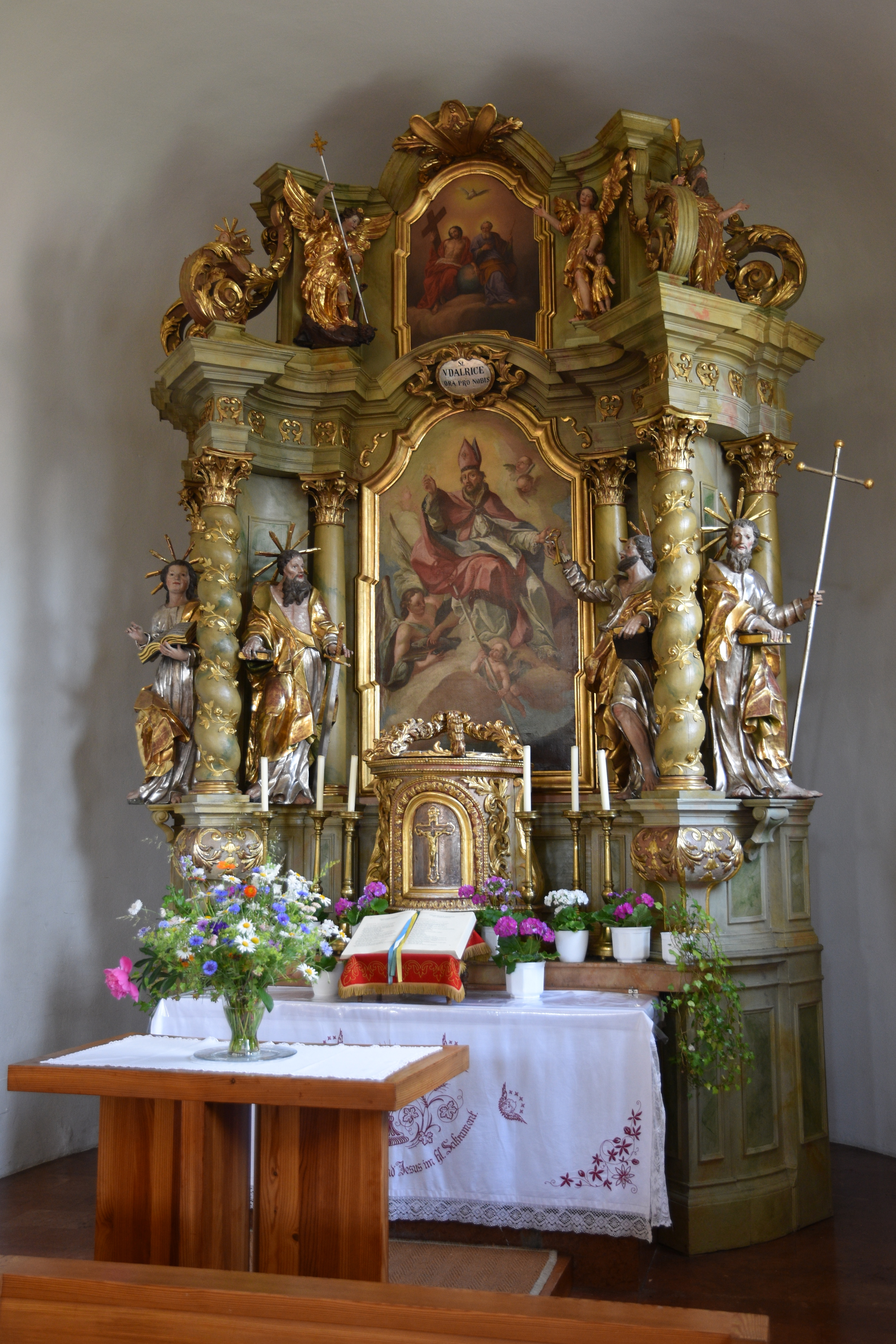 Church Pfarrkirche Unternberg Interior